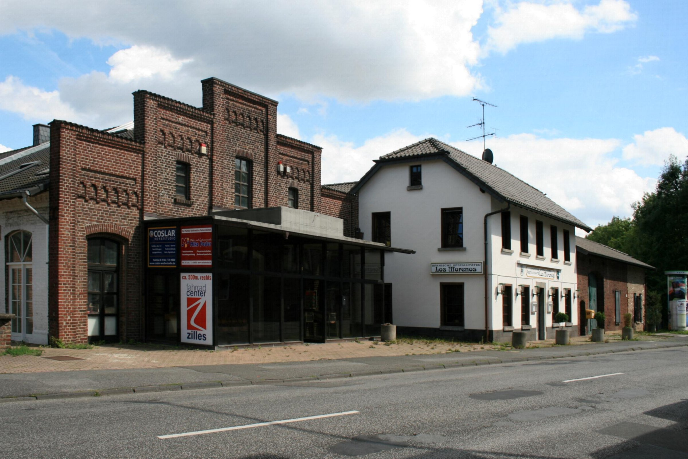 Cultural heritage monument No. B 018 in Mönchengladbach